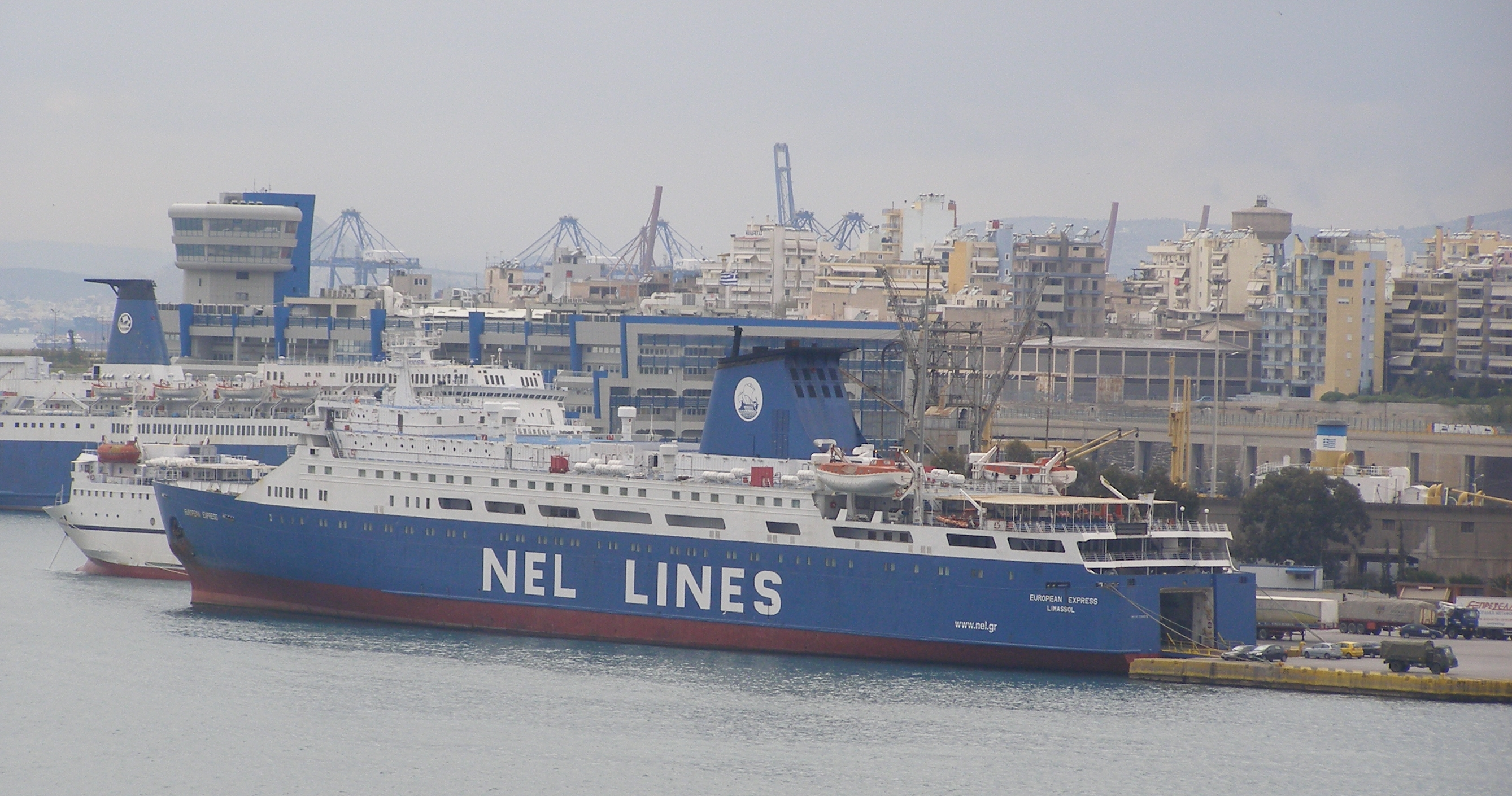 Piraeus - European Express